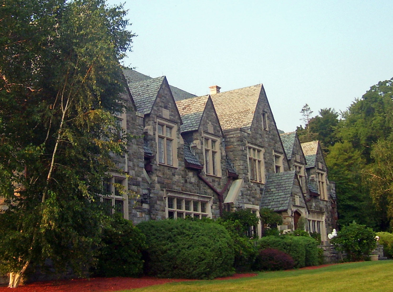 Main house at Eagle's Rest, estate of New York Yankees' owner Jacob Ruppert, in Garrison, NY, USA. Now part of St. Basil Academy